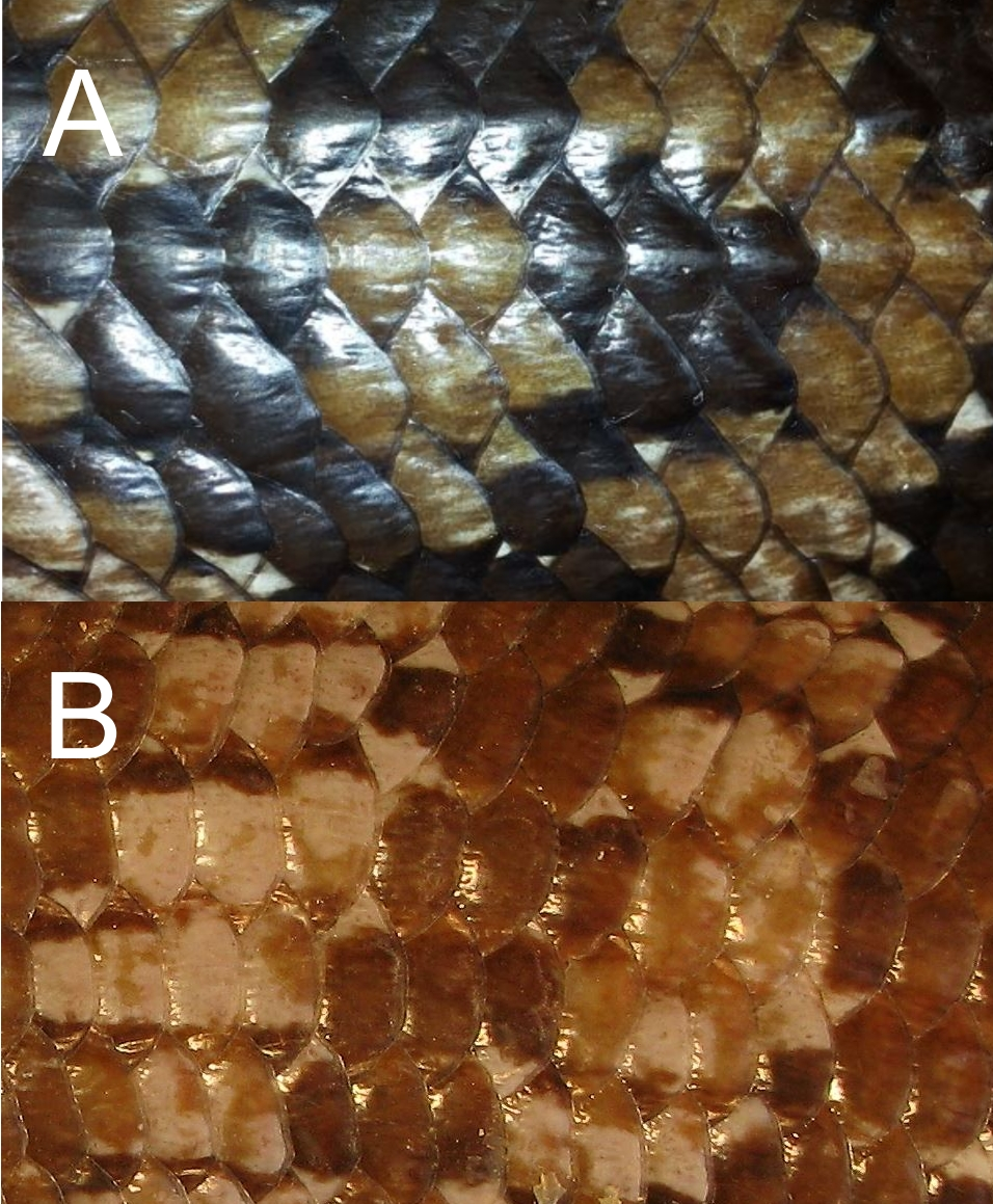 keeled (A) and unkeeled (B) scales are a good way to distinguish Tiliqua gigas (A) from Tiliqua scincoides (B)